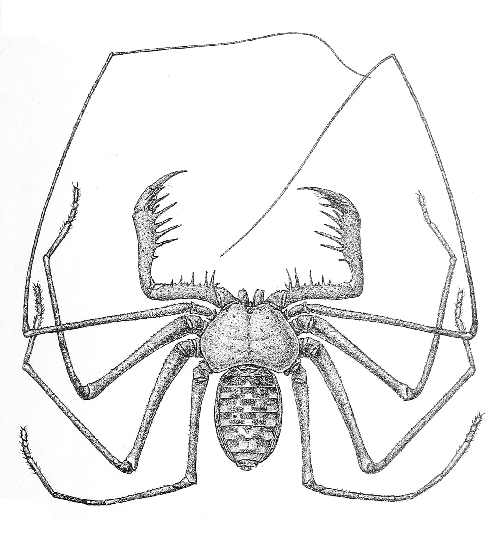 Phrynus tessellatus